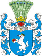 Fleming Coat of Arms Fleming Clan